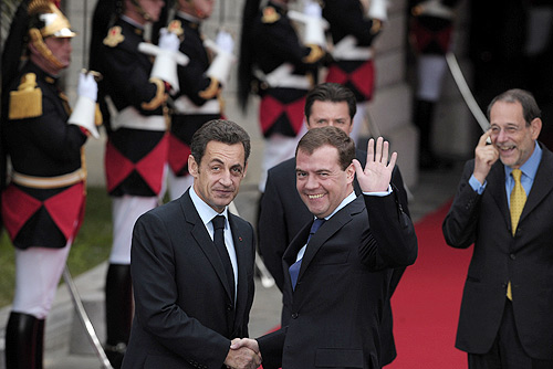 NICE, FRANCE. Before the Russia–EU summit. Dmitry Medvedev with the French President Nicholas Sarkozy. In the back (left to right): Christian Estrosi, mayor of Nice, and Javier Solana, Secretary General of the Western European Union.